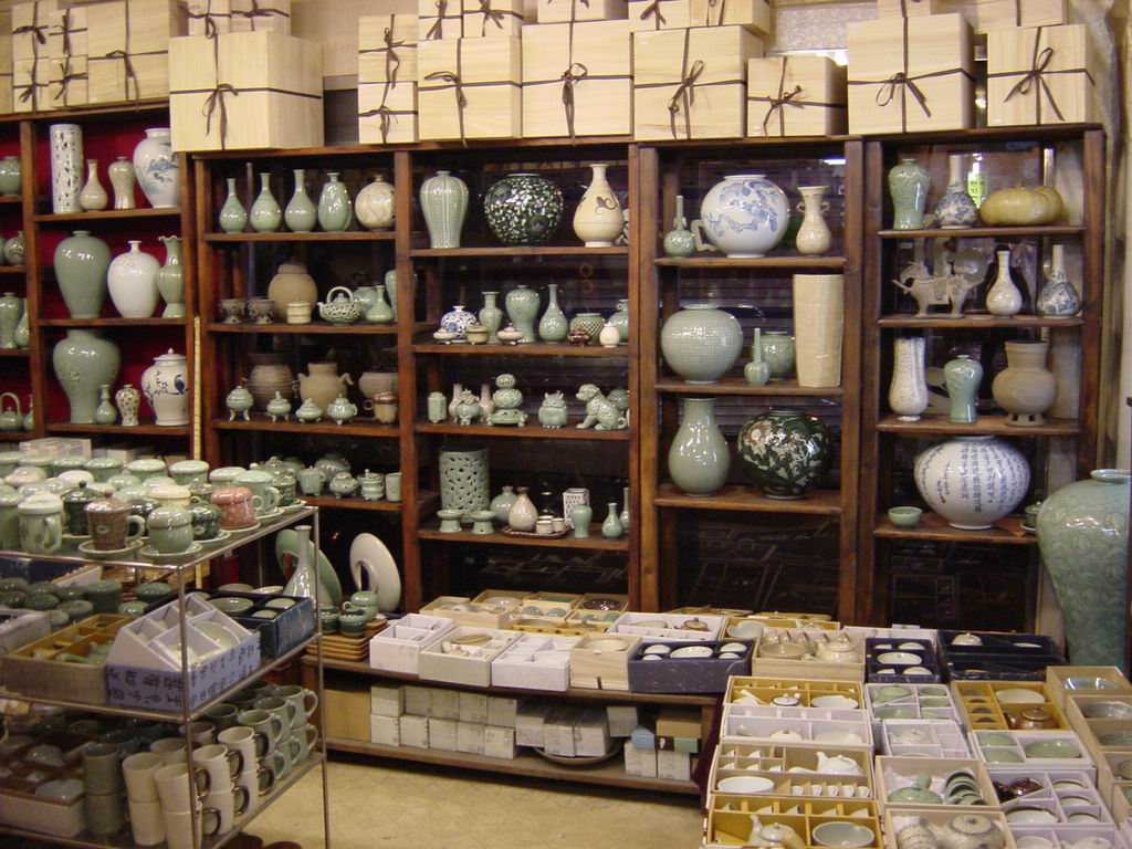 A Korean traditional porcelain shop in Insadong, Seoul, Korea